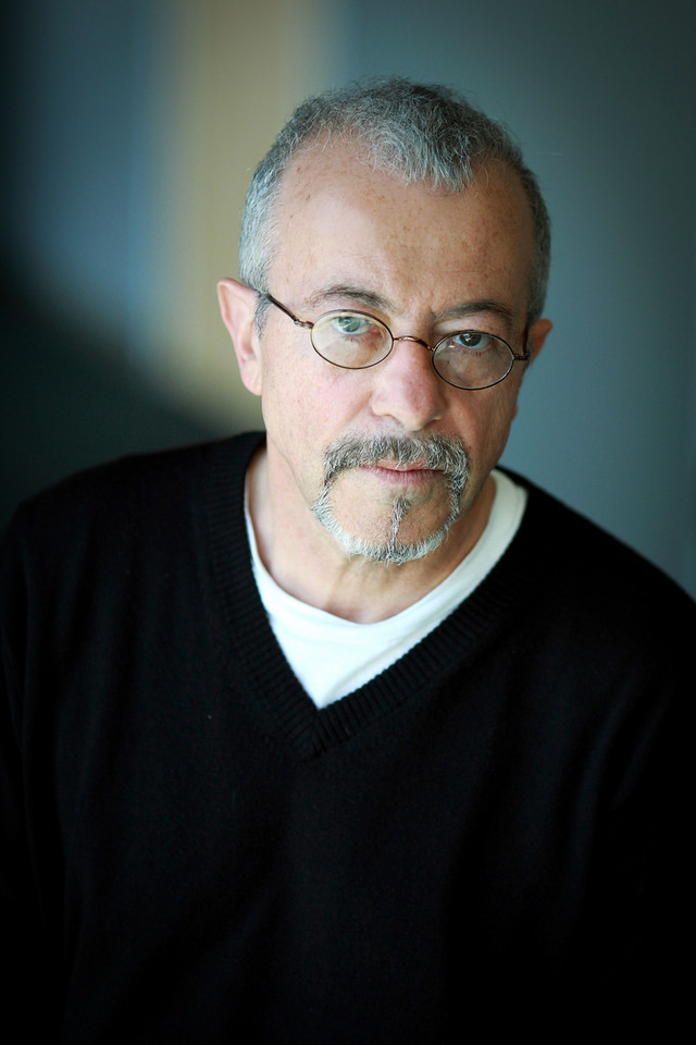 Portrait of Andrei Codrescu